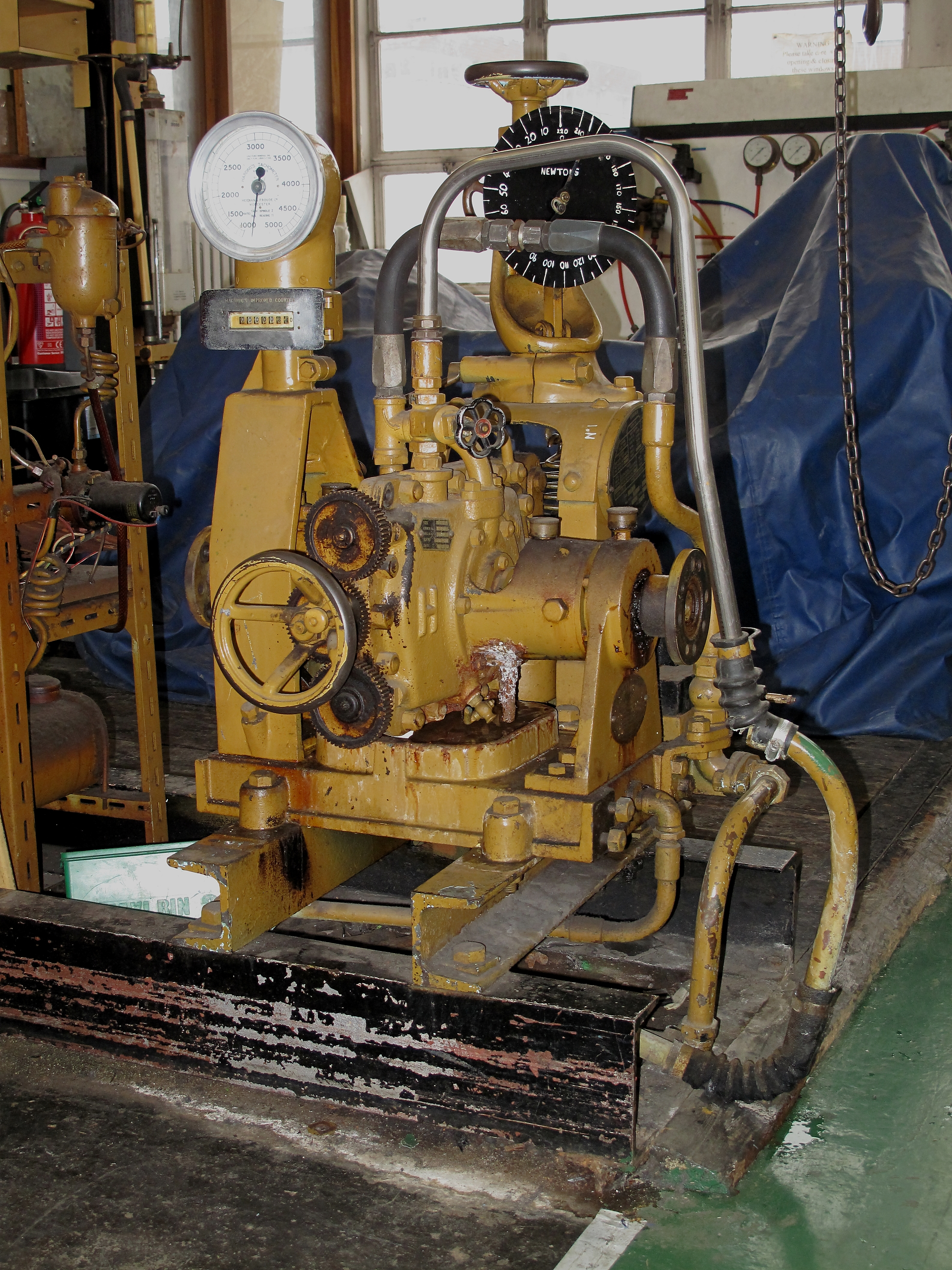 This Dynamometer in our college workshops will be 72 years old this month, but due to Elfin Safety it has got to be decommisioned.If I have my way it wont be going for scrap even if I have to keep a 24 Hour vigil.......... First commission 11th February 1937 and still going strong.